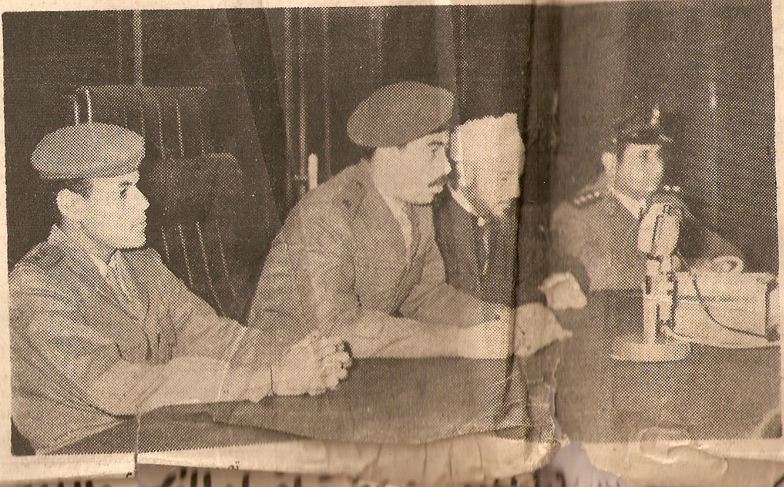 Judges of the Libyan People's Court 1971.